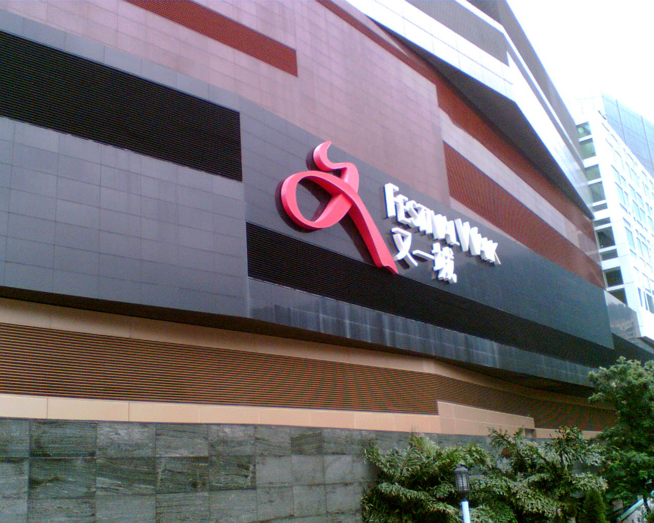 Festival Walk outside